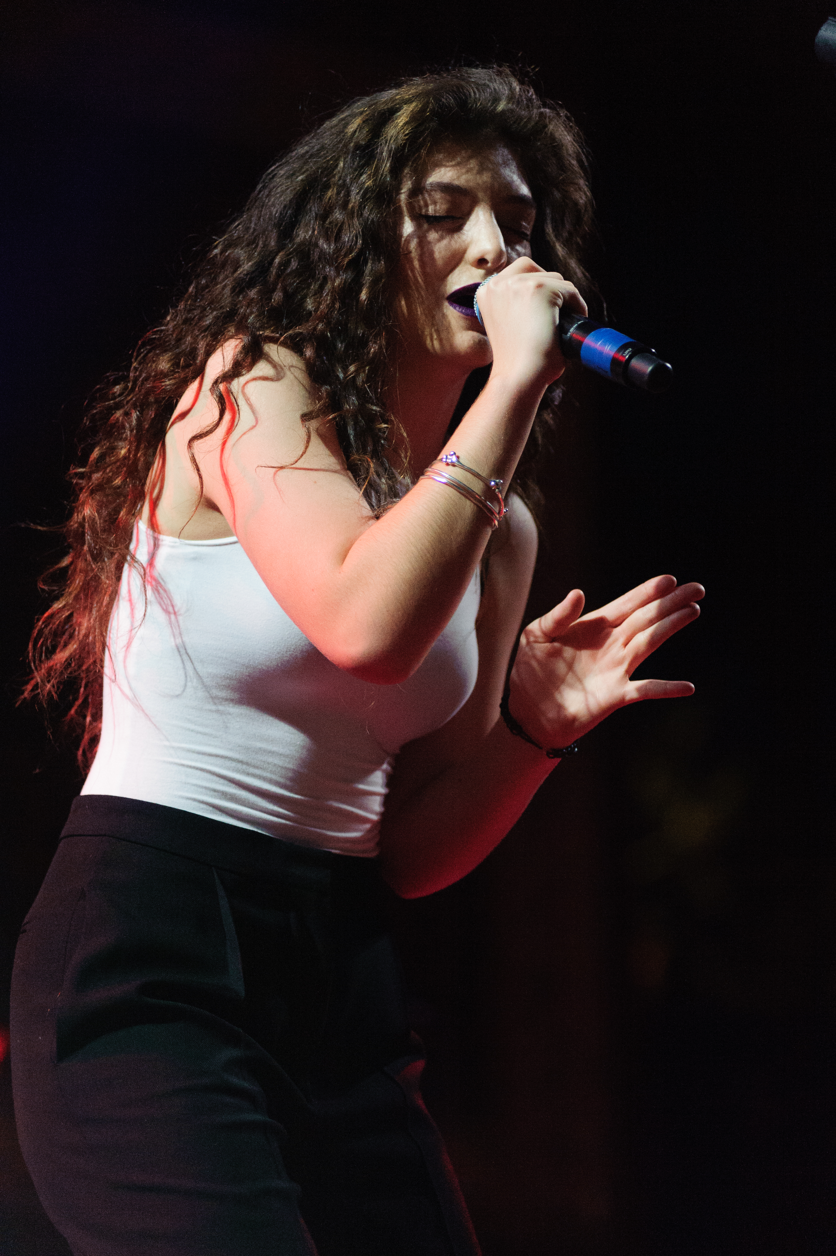 Lorde performing at Coachella on April 19, 2014.